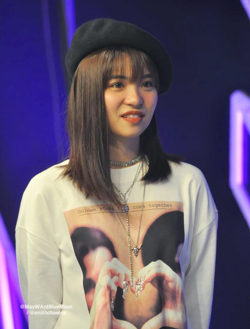 Sharlene San Pedro on iWantASAP in November 2019